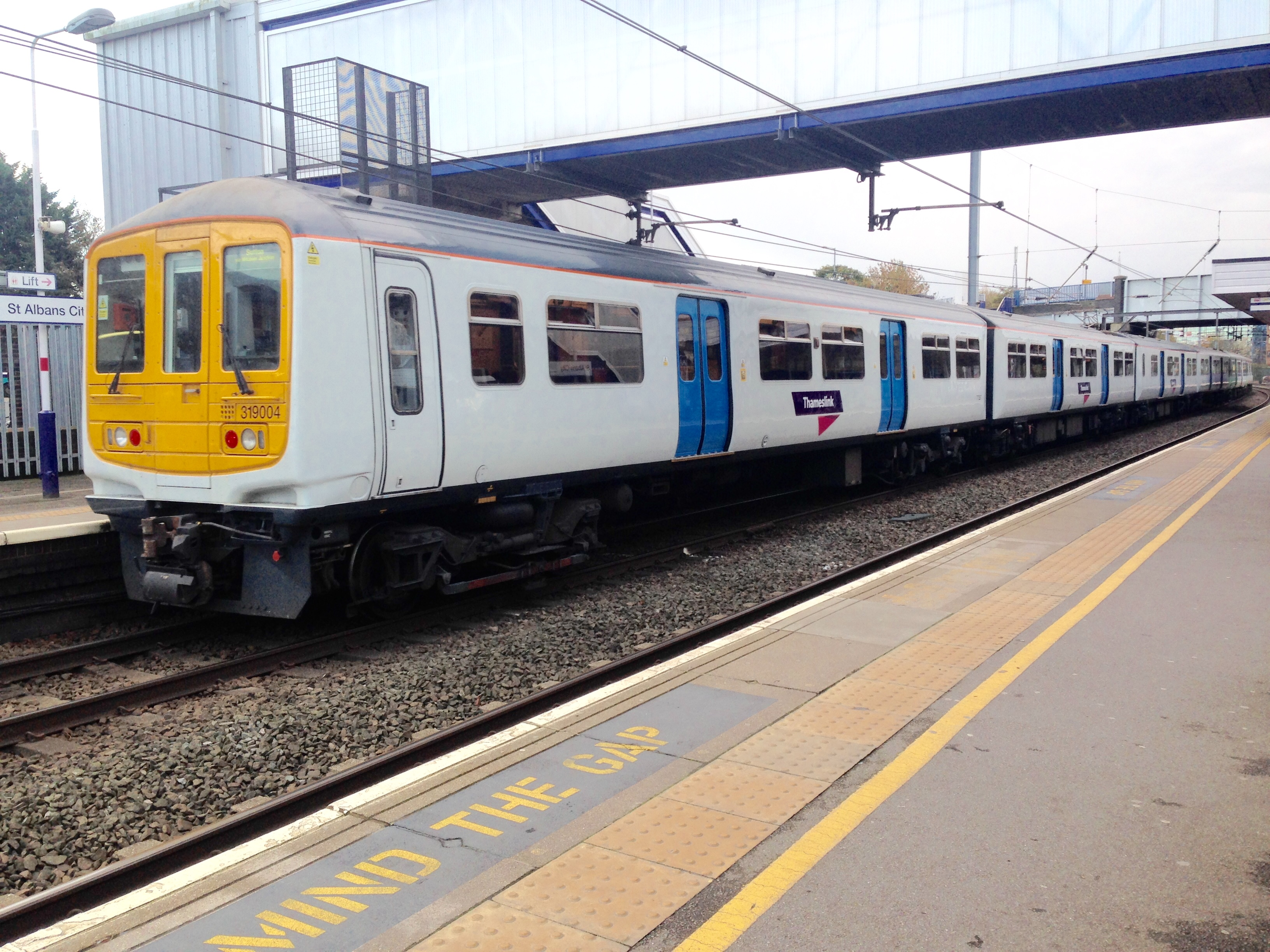 A Thameslink train with new 2014 livery at St Albans